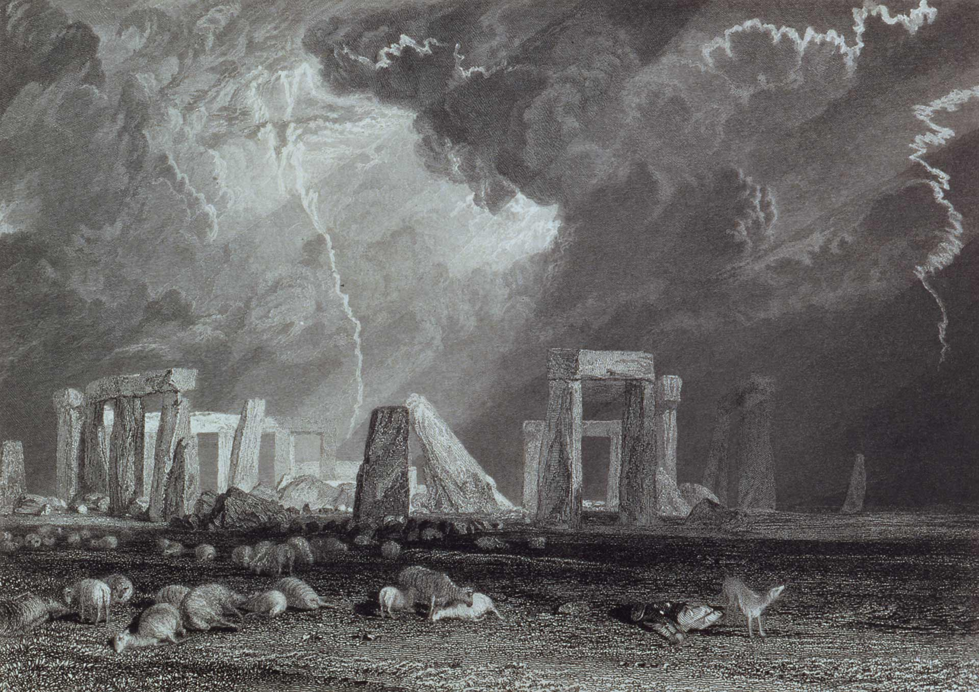 Turner’s watercolor view of Stonehenge, engraved by Robert Wallis, 1829